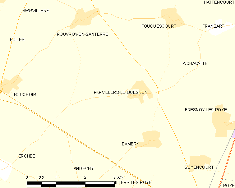 Map of French municipality Parvillers-le-Quesnoy